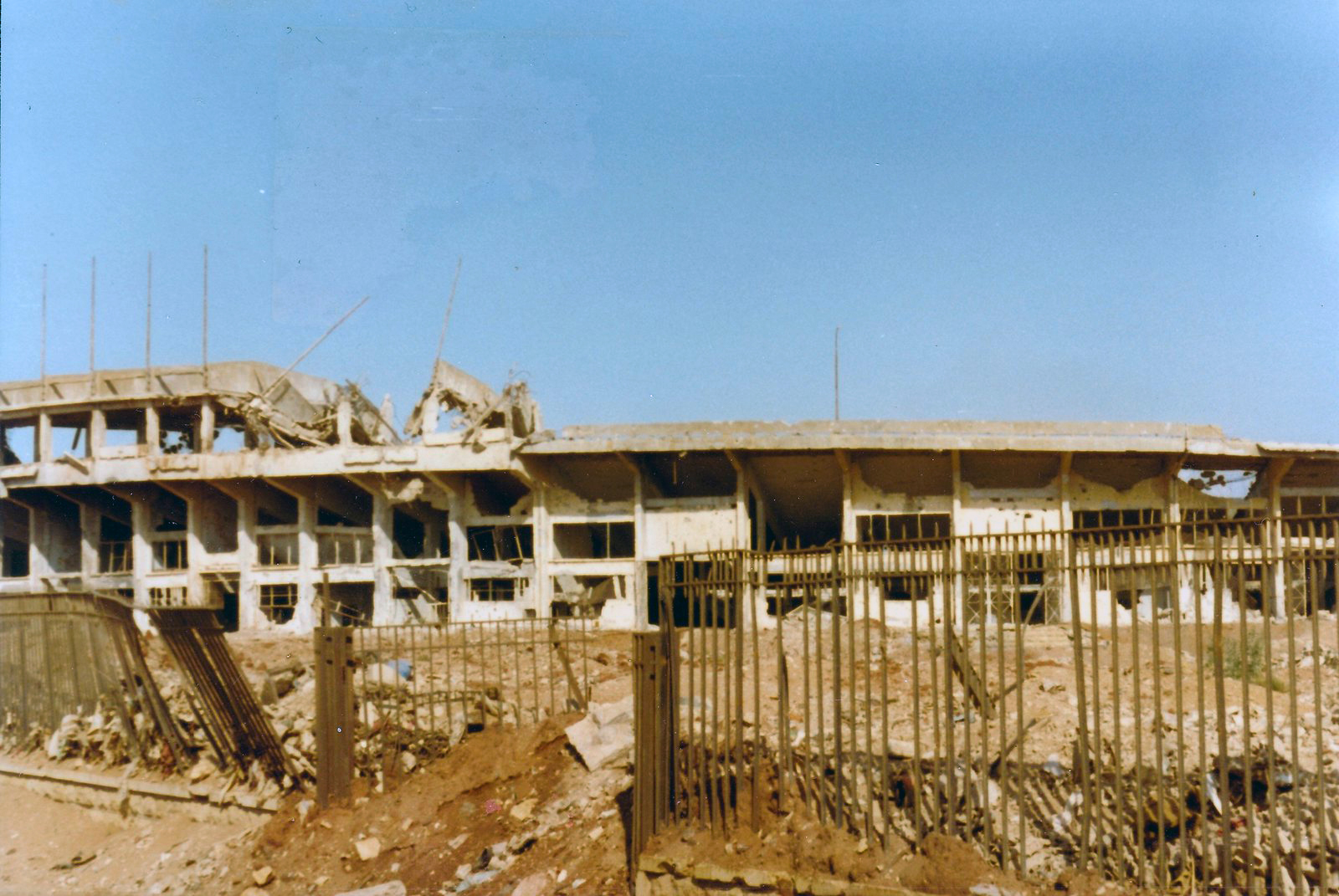 Devastated Stadium Beirut, Lebanon 1982 Pentax ME Super